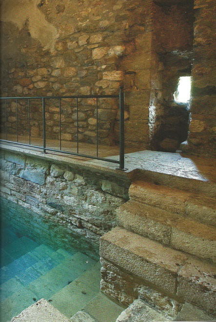 The old Jewish Mikve in Besalú. Credit: Courtesy of Arie Darzi to memorialize the Jewish communities in Spain.